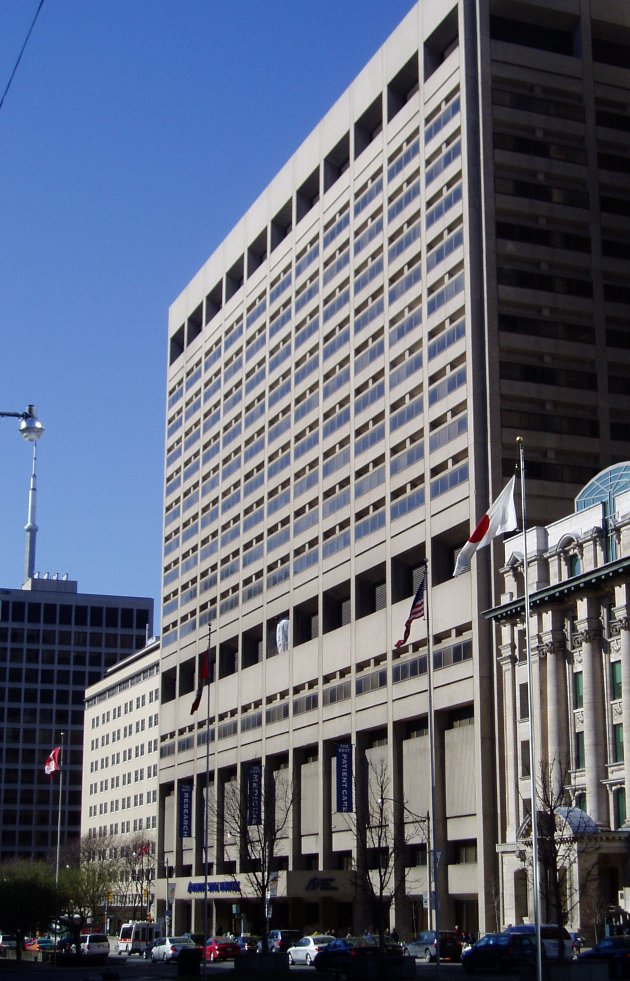 Taken by SimonP in April 2005